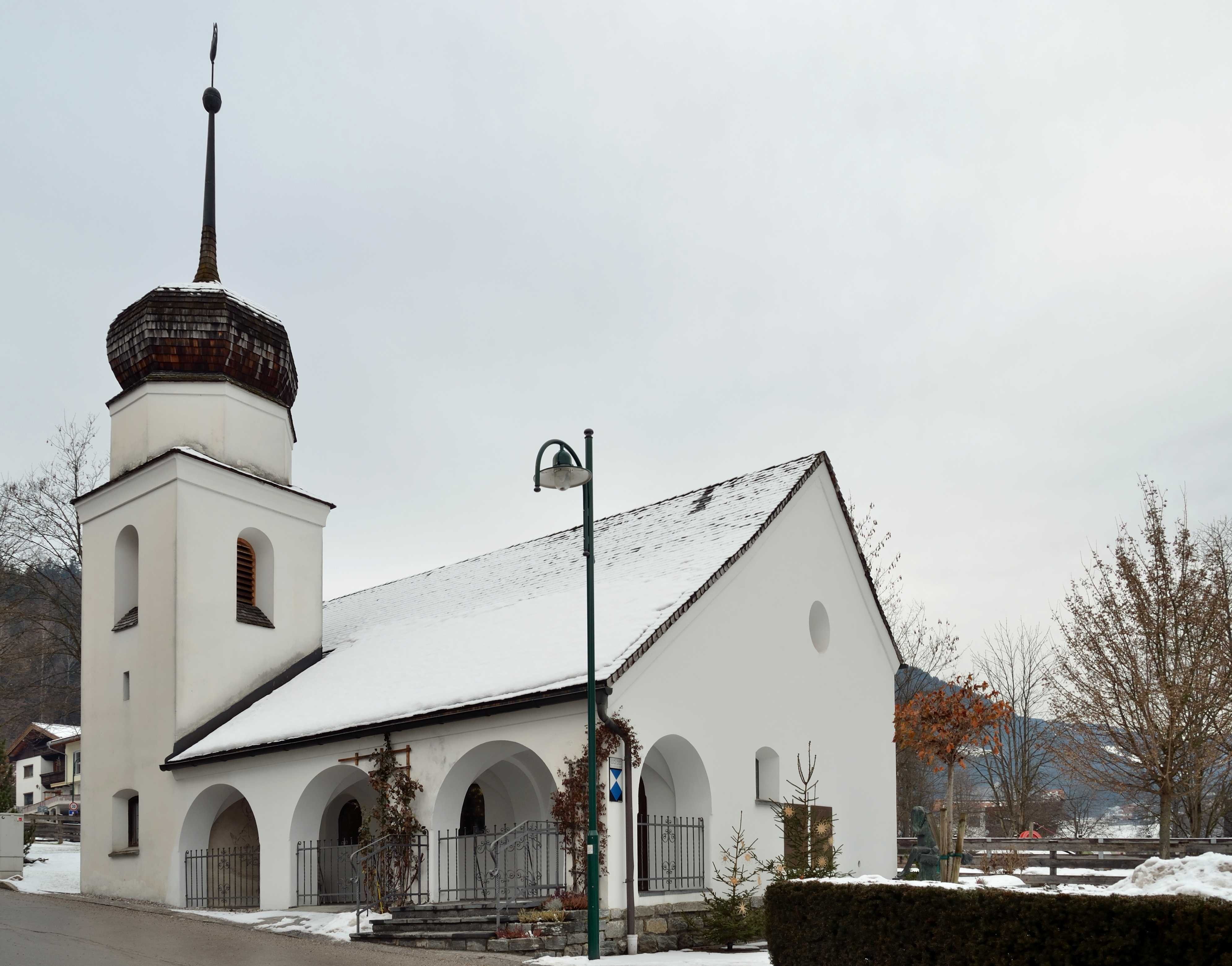 The chapel Mariä Heimsuchung (Visitation of Mary) in Kaltenbach im Zillertal, Tyrol, is protected as a cultural heritage monument.